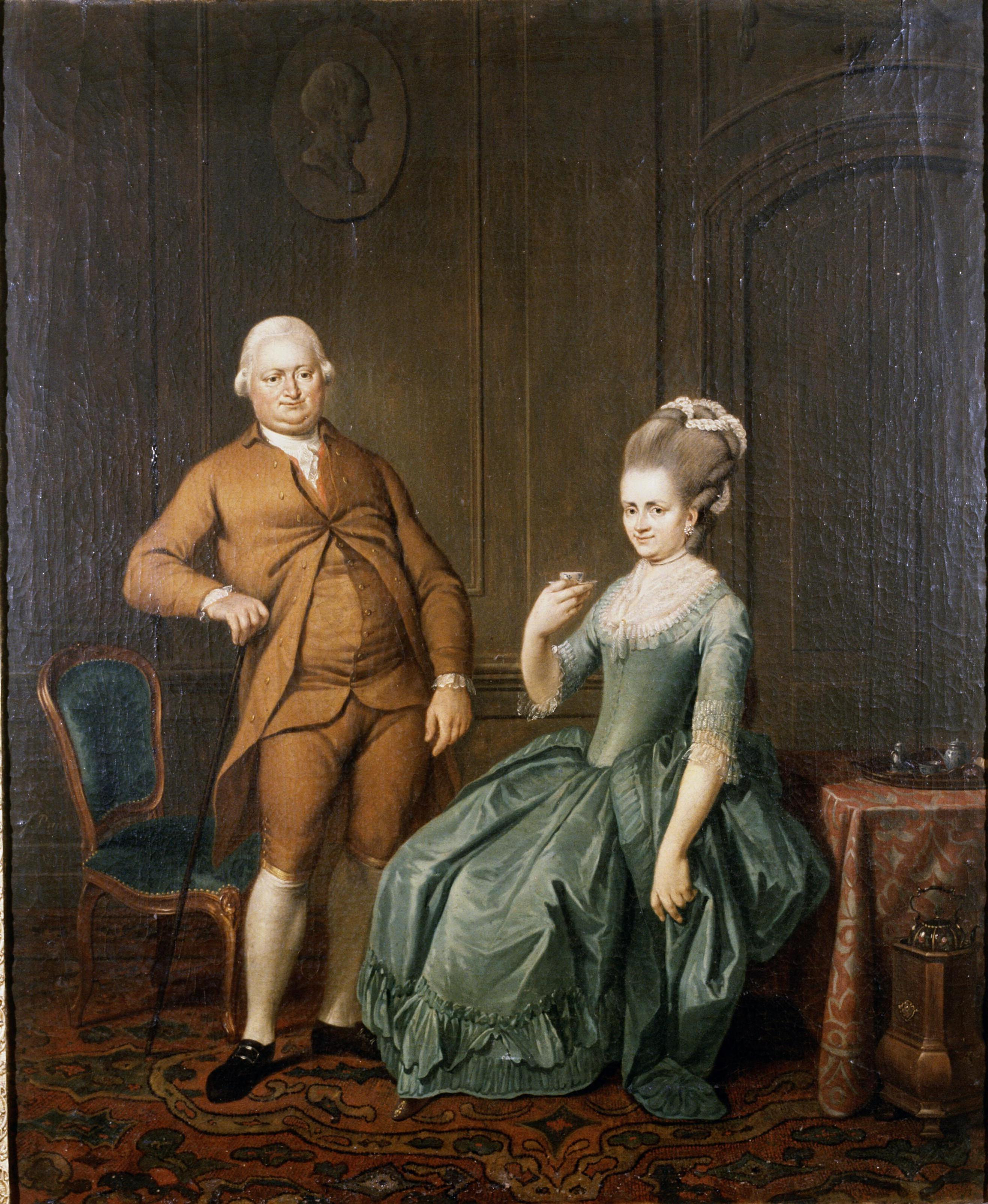 Double portrait of Jan Modderman (1747-1790) and Angelique Esther Elin (1754-1844)